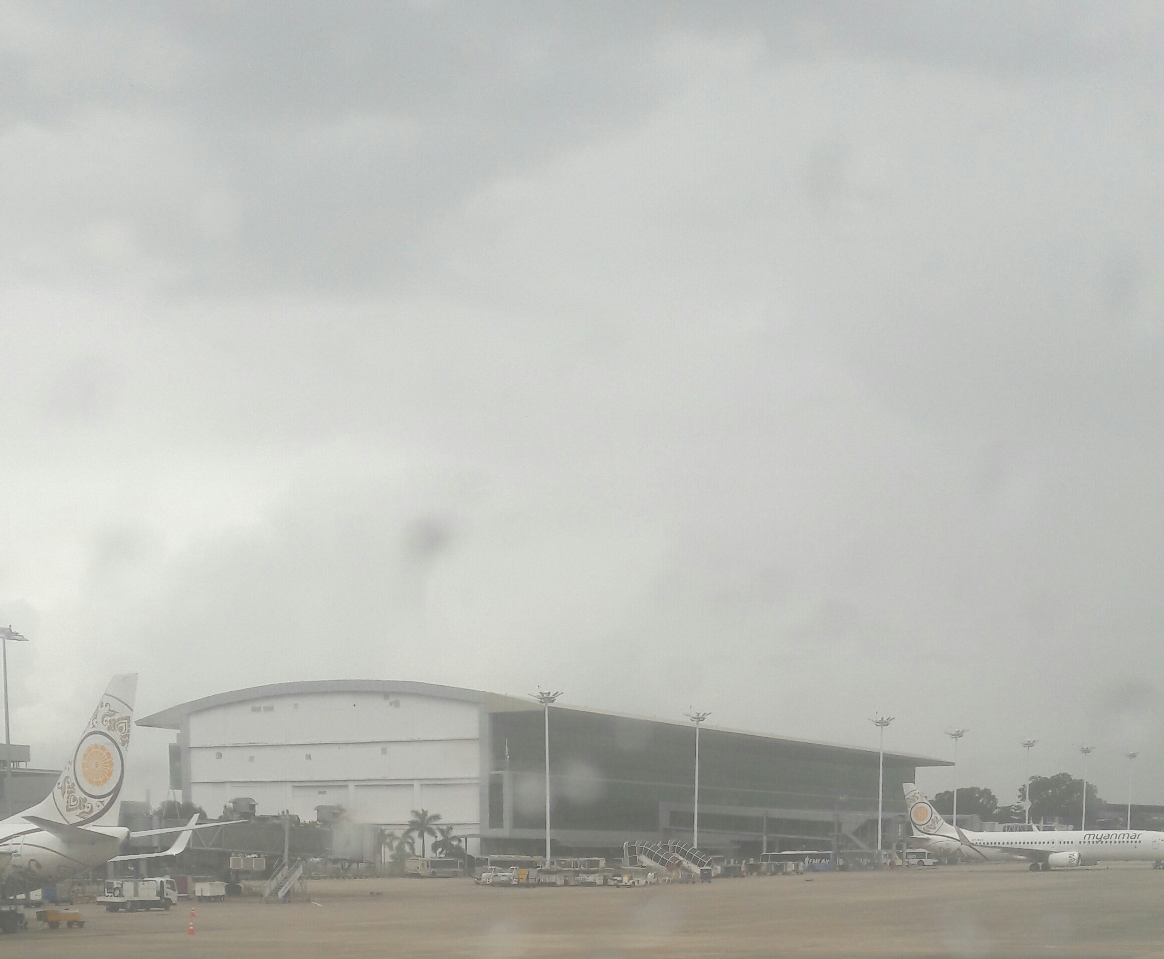 A Terminal of Yangon Airport